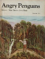 Cover of the Dec 1944 edition of Angry Penguins, featuring a reproduction of a painting by Alfred Tipper (1867-1944)